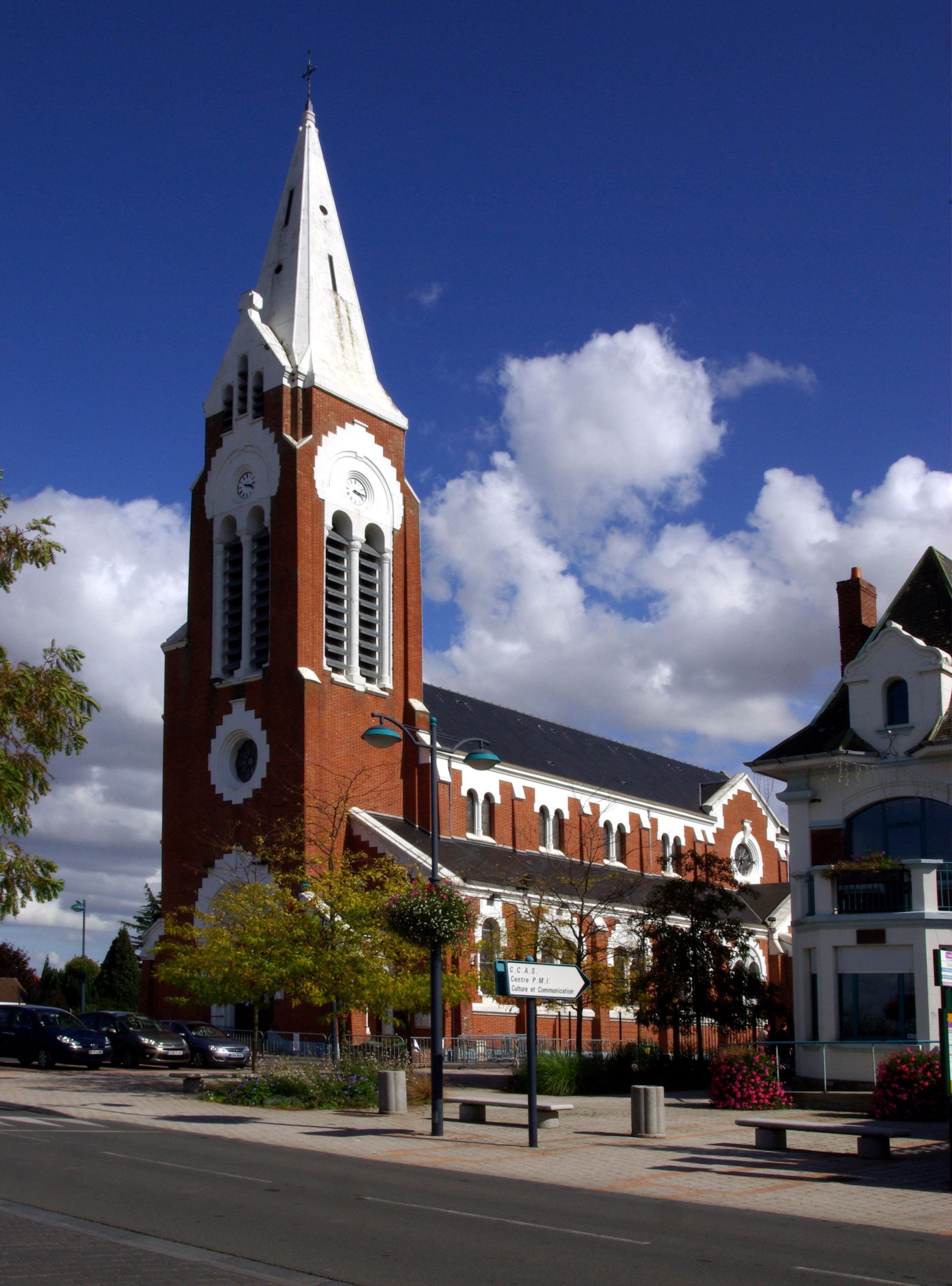 Church Billy-Berclau